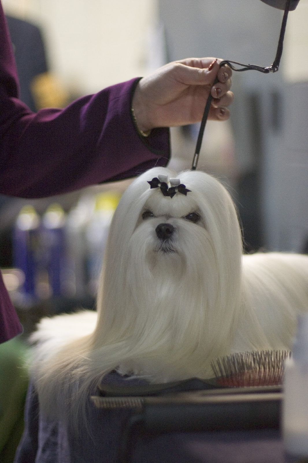 A Maltese at the 2007 Westminster Kennel Club Dog Show.